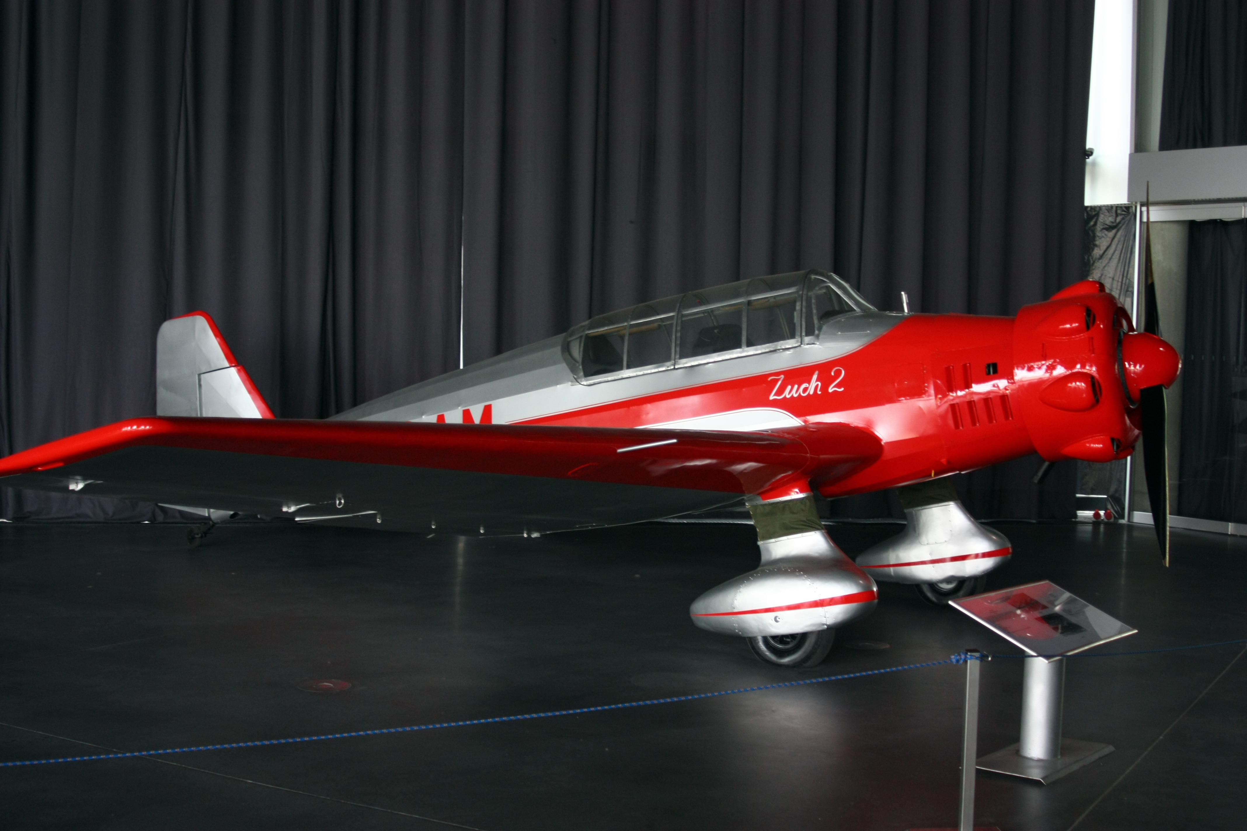 Plane LWD Zuch 2, SP-BAM, from the collection of the Aviation Museum in Krakow